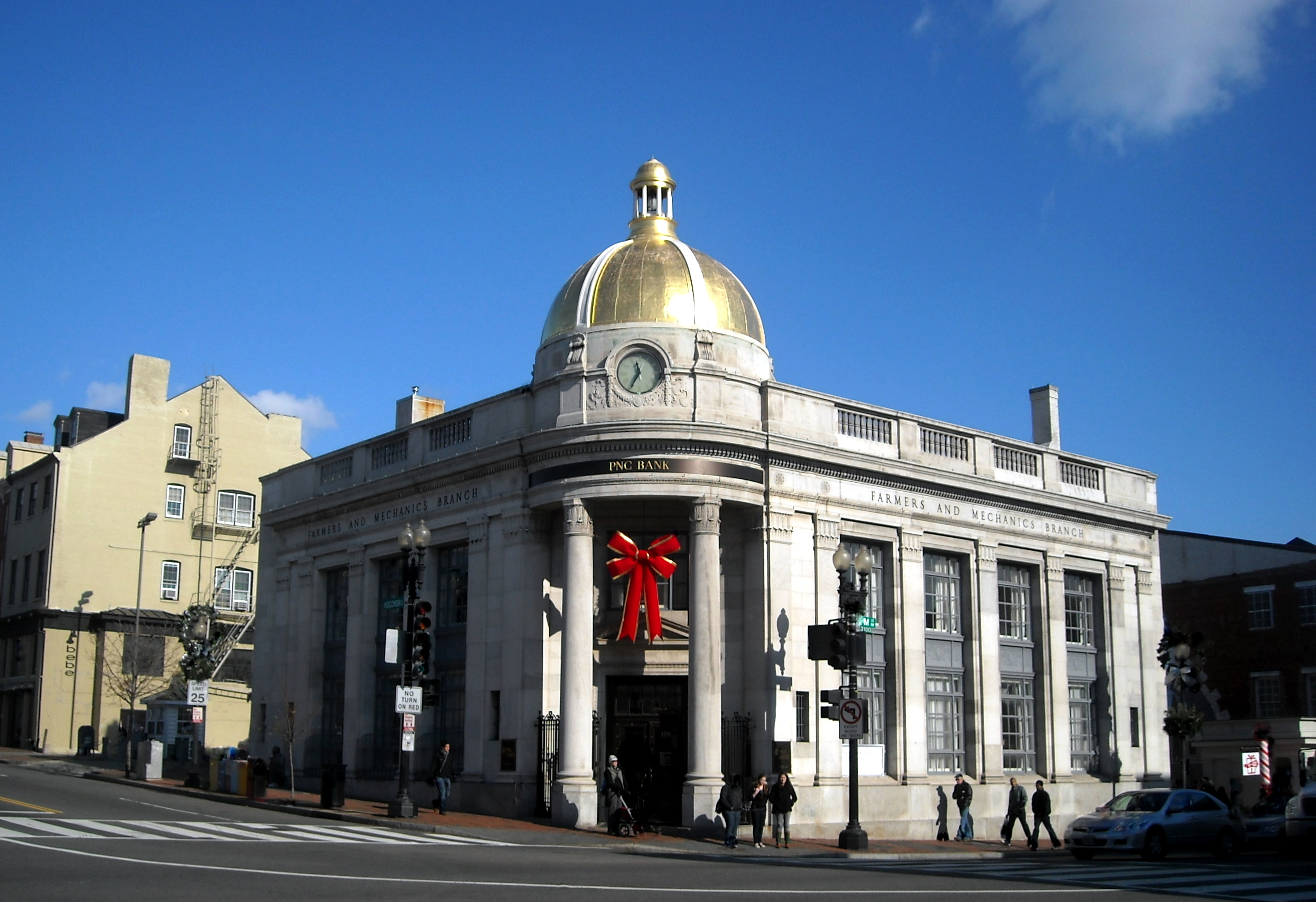 The landmark, former headquarters of Farmers and Mechanics National Bank, located at 1201 Wisconsin Avenue, N.W. (intersection of M Street and Wisconsin Avenue), in the Georgetown neighborhood of Washington, D.C. Designed by architects Marshall and Peter in 1922, the neoclassical building is a contributing property to the Georgetown Historic District, a National Historic Landmark. The building currently serves as a branch for PNC Bank, following the dissolution of the site's previous owner, Riggs Bank.